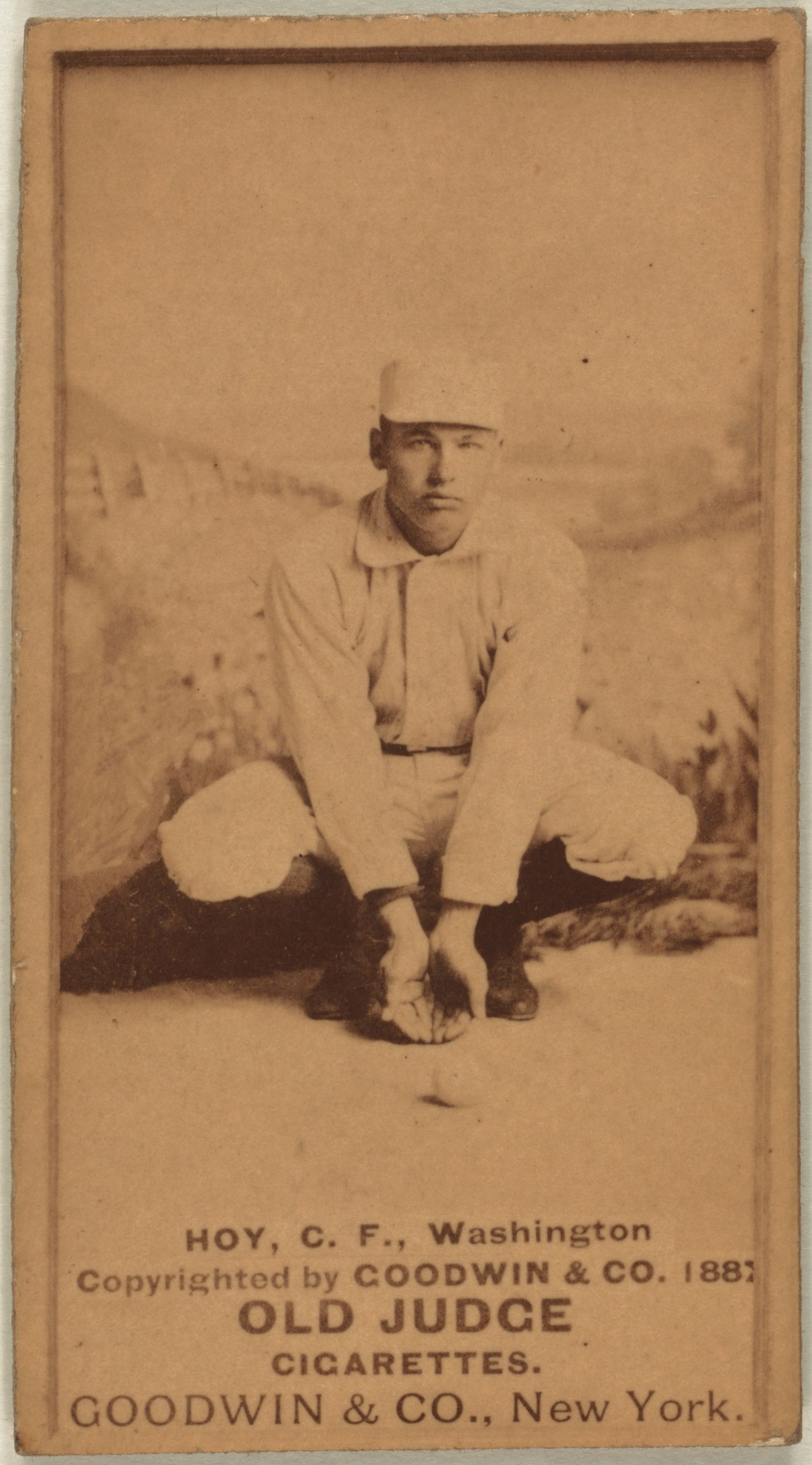 Dummy Hoy